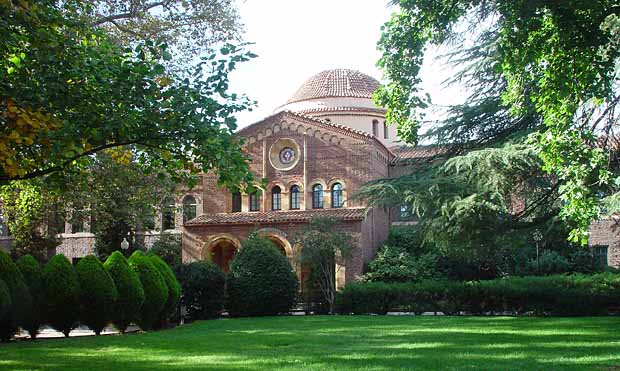 Chico State's Kendall (Administration) Hall.